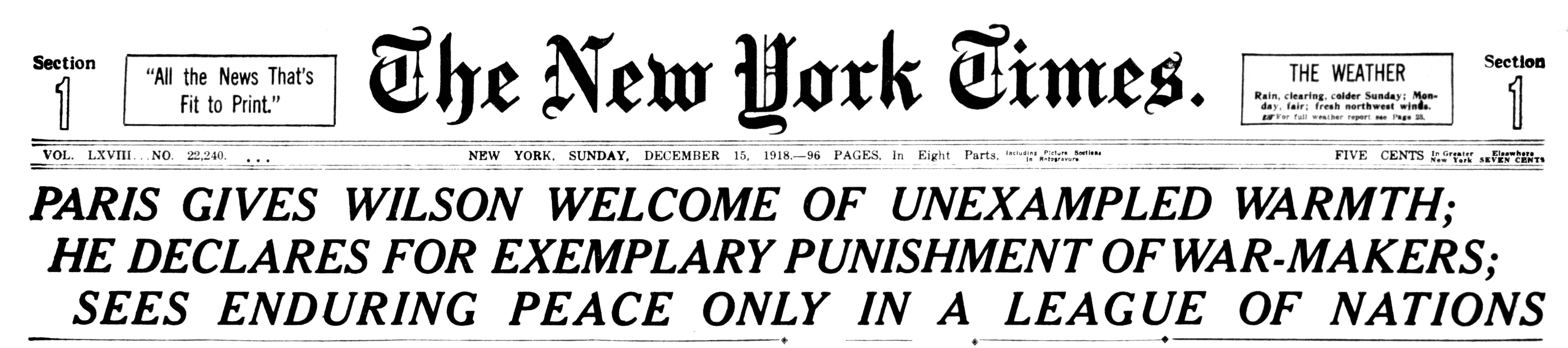 Front-page headline from The New York Times, December 15, 1918, including phrase Woodrow Wilson "Sees Enduring Peace Only In A League of Nations".